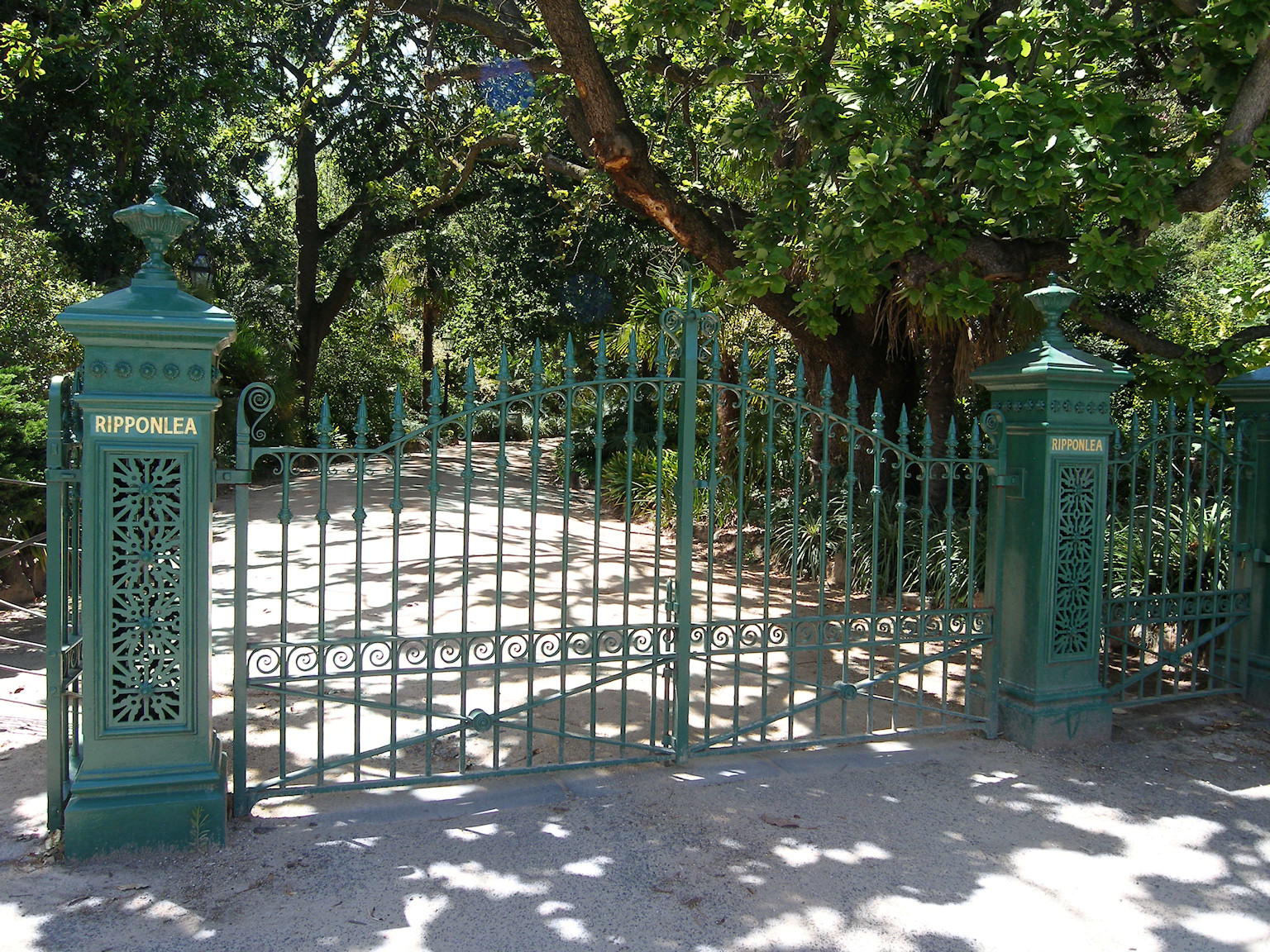 The front gates of the Rippon Lea estate in Rippon Lea, Victoria, Australa